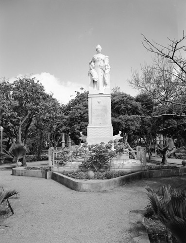 Statue of Queen Wilhelmina in the Wilhelminapark in Willemstad (Curaçao)